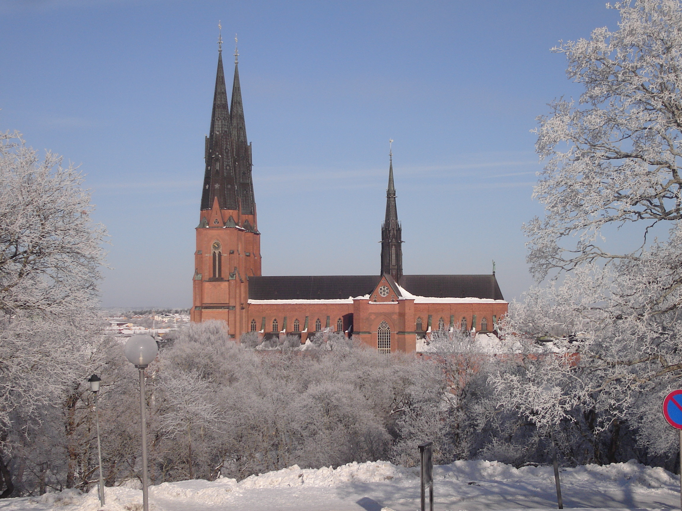 Uppsala cathedral in february